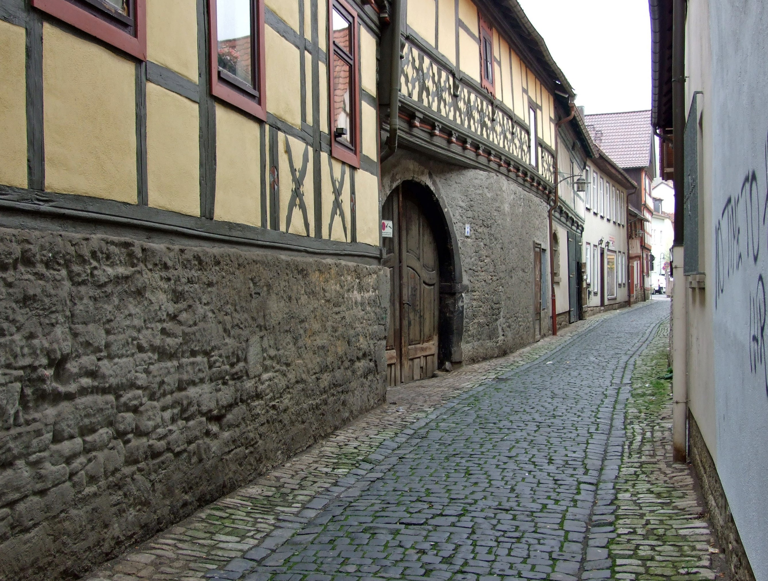 former entrance for mail coaches of Thurn & Taxis postage-station in Meiningen, Thuringia, Germany